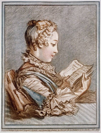 Woman reading a book (Héloïse et Abélard) by French engraver Gilles Demarteau (1729-1776) after François Boucher (1703-1770). Crayon manner print.